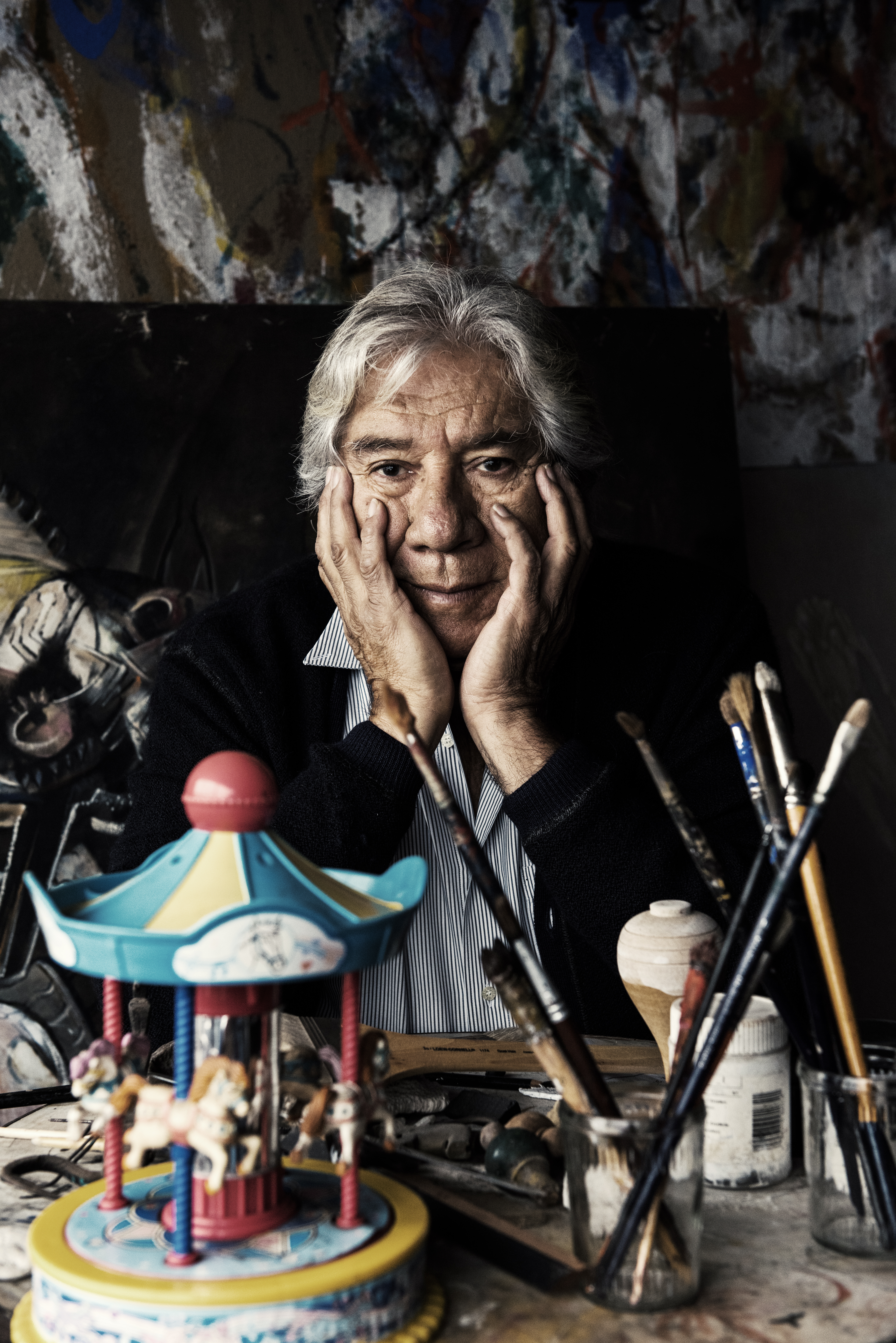 According to a Google search this is Gerardo Chavez